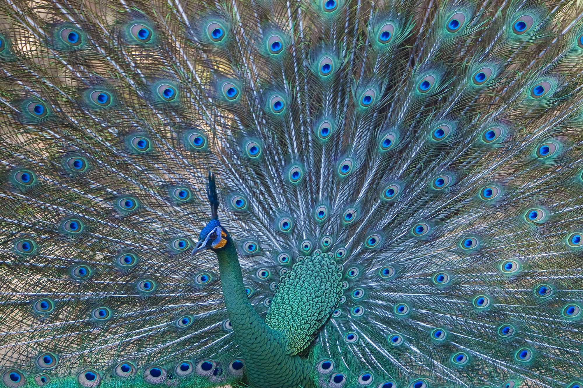 Green Peafowl (Pavo muticus), Hai Hong Karni, Thailand